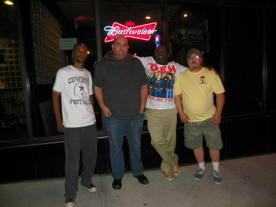 Scene of irony band photo outside of Lemmons June 2012